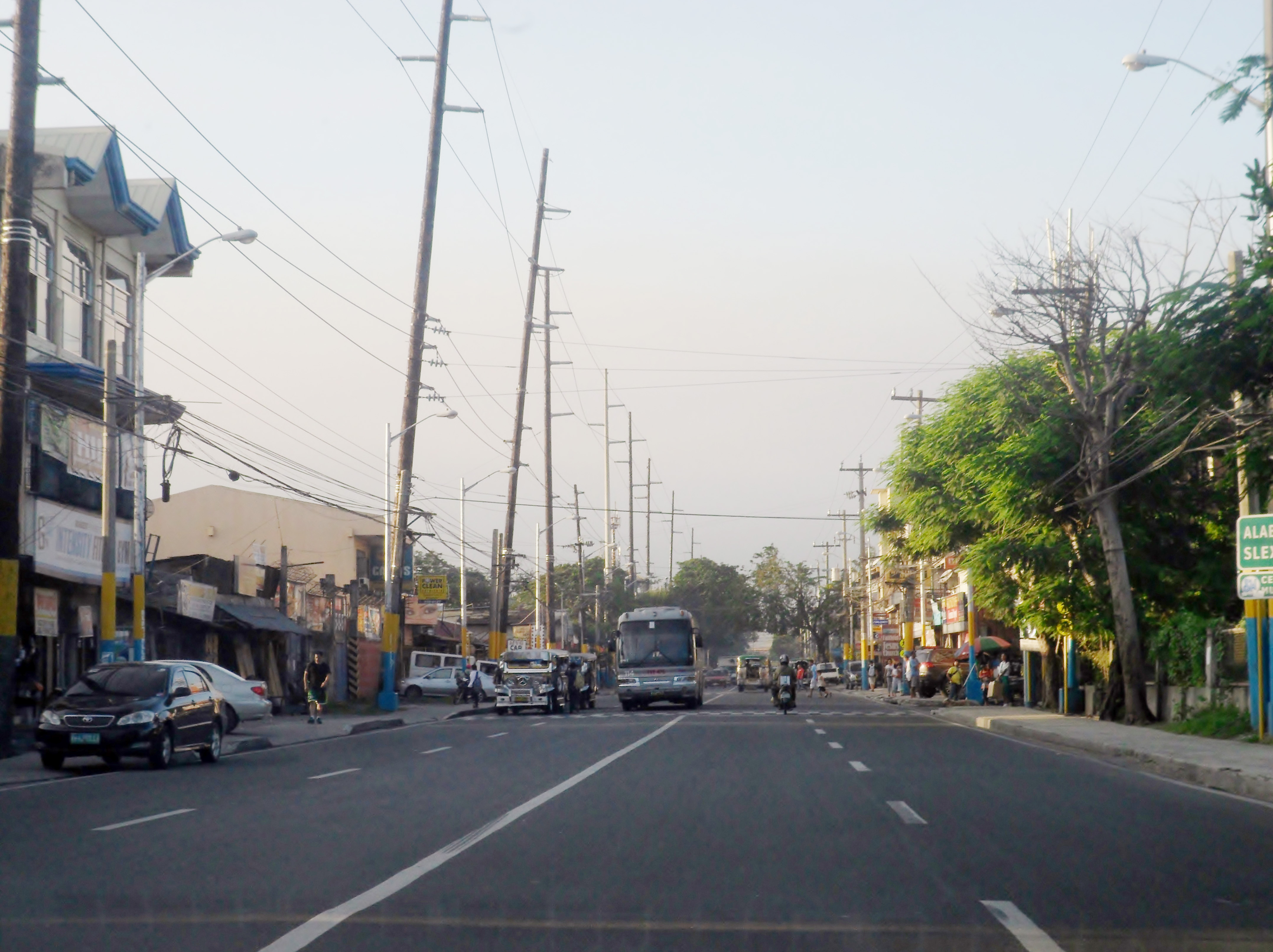 The Maharlika Highway (National Road) at Tunasan, Muntinlupa City.Tagalog: Ang Daang Maharlika (National Road) sa Tunasan, Lungsod ng Muntinlupa